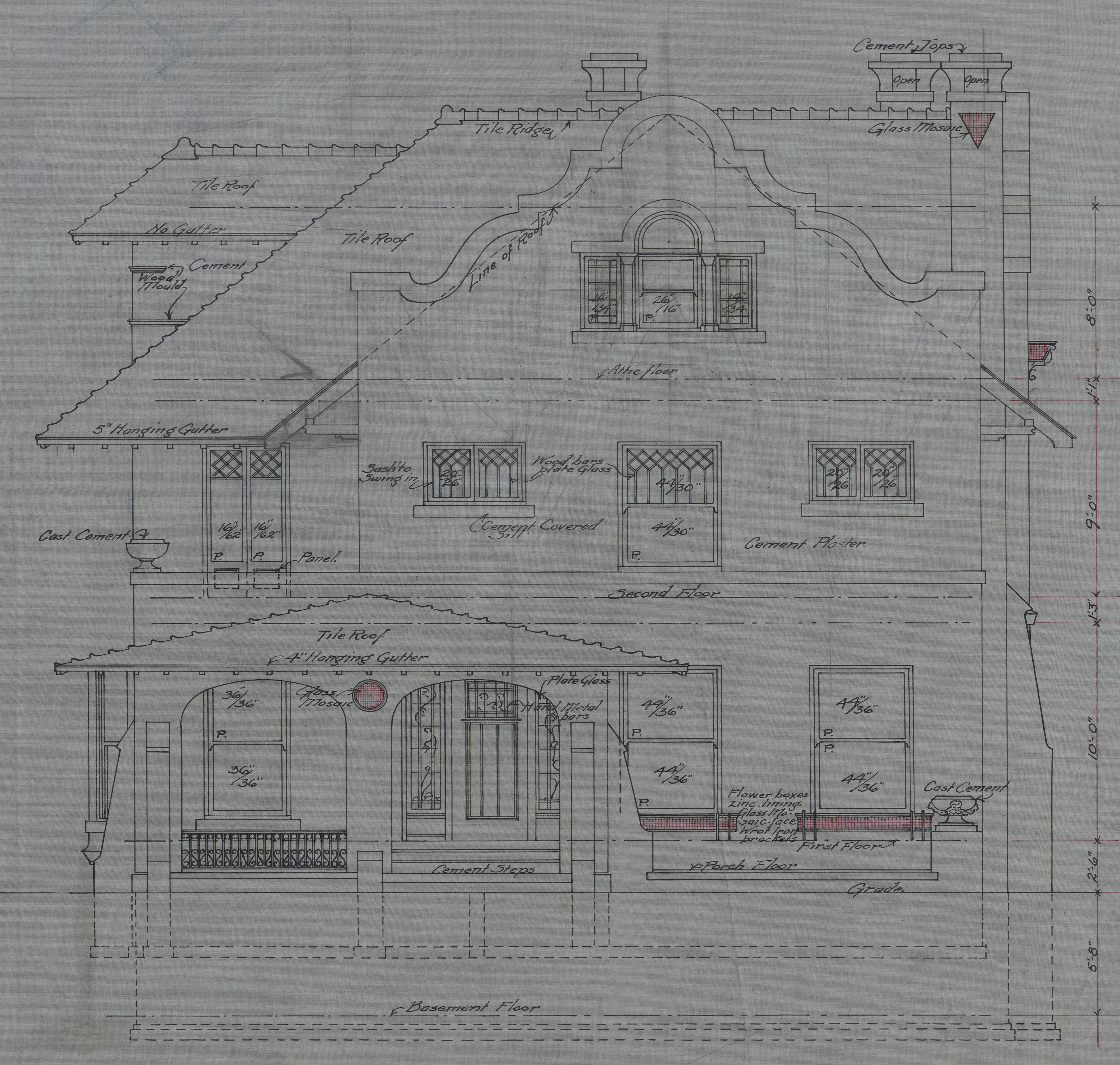 This image is an architectural drawing done by George S. Mills, an architect working in Toledo. The residence was commissioned by W. W. Morrison. The commission number for this job was 1364, the house was commissioned in 1906 and constructed in 1907 at 2044 Collingwood Avenue (now Collingwood Boulevard). The drawing is black ink on white linen. This drawing is labeled Sheet Number 6, Rear Elevation and Front Elevation, and is titled ""Residence for W.W.Morrison~Esq""